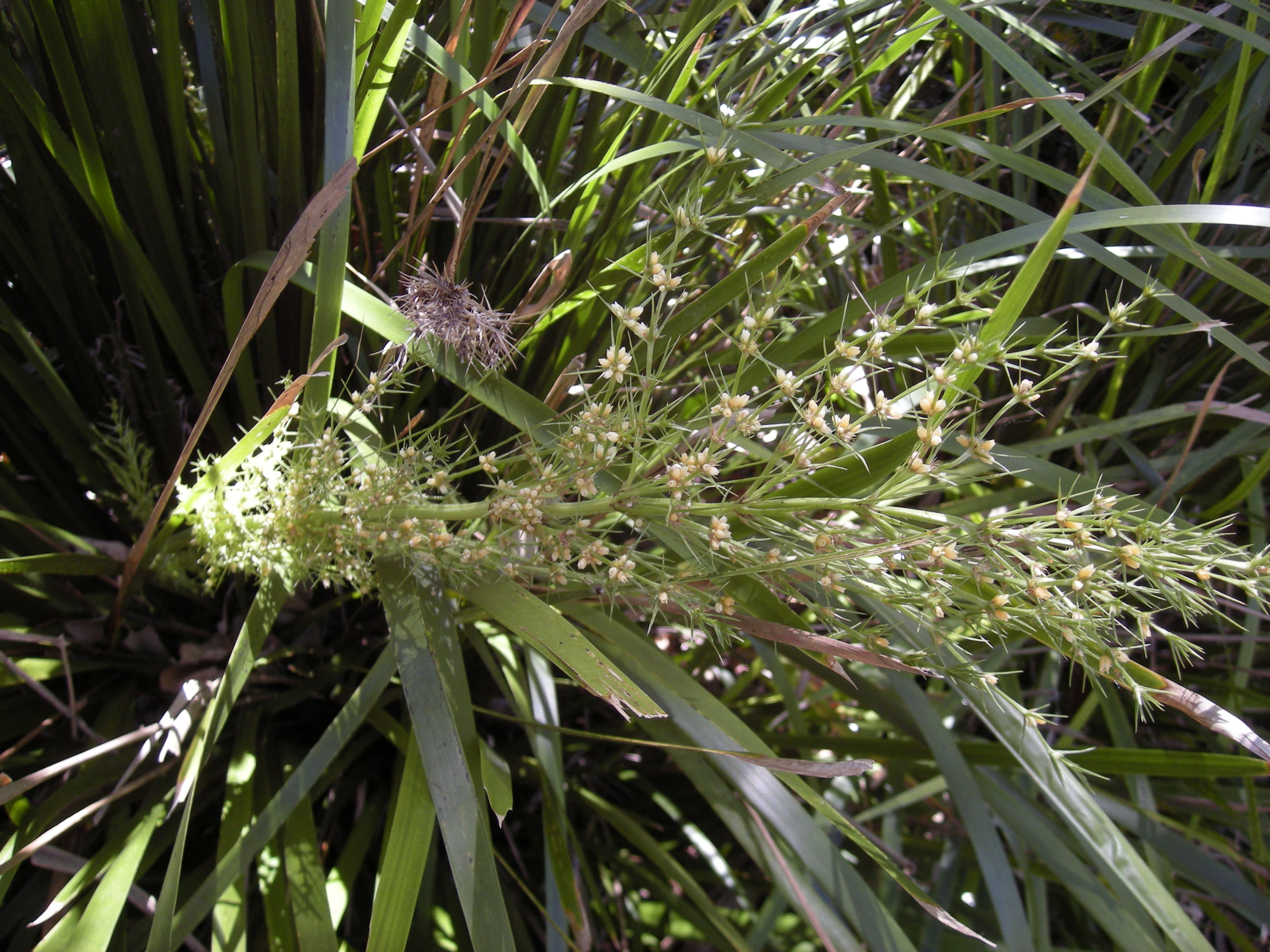 Lomandra hystrix inflorescence. Mount Archer Nation Park, Rockhampton, Queensland.